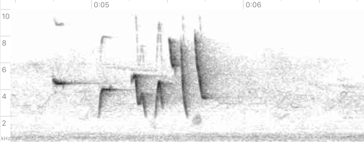 Bird call visualisation